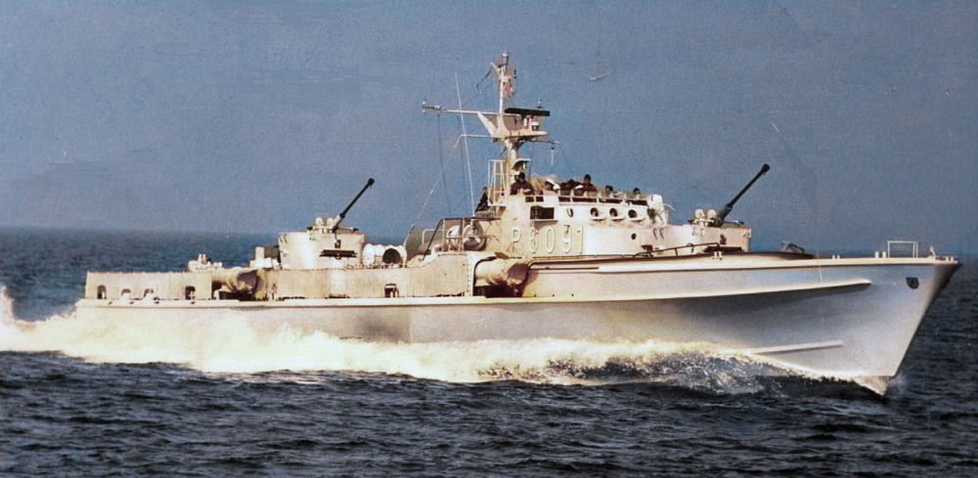 Fast attack craft "Dommel" of "5. SG" (means fast patrol boat squadron 5). The Type 140 Jaguar class were the first new invented vessels of the West German Navy after WW II. They were an evolution of the german torpedo boats (E boats) of World War II. Sa'ar 1 to 3 classes ("Cherbourg") were missile boats built in Cherbourg, France at the Amiot Shipyard based on Israeli Navy modification of the German Navy's Jaguar class fast attack craft. , Elster and Dommel are boats from these squadron.